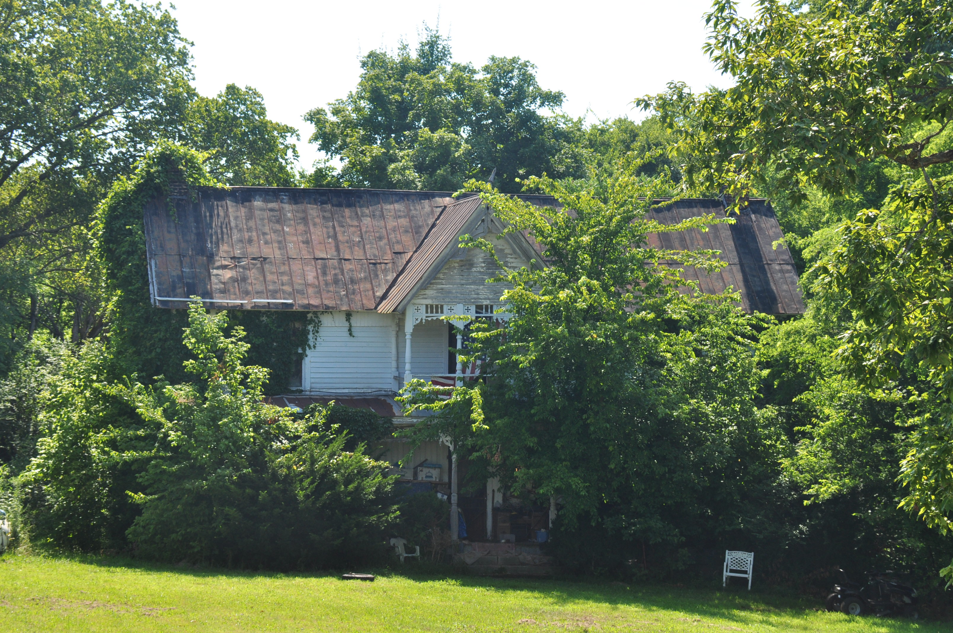 Located at Kirkland, Williamson County, Tennessee. NRHP Reference #88000350, listed 13 April 1988.